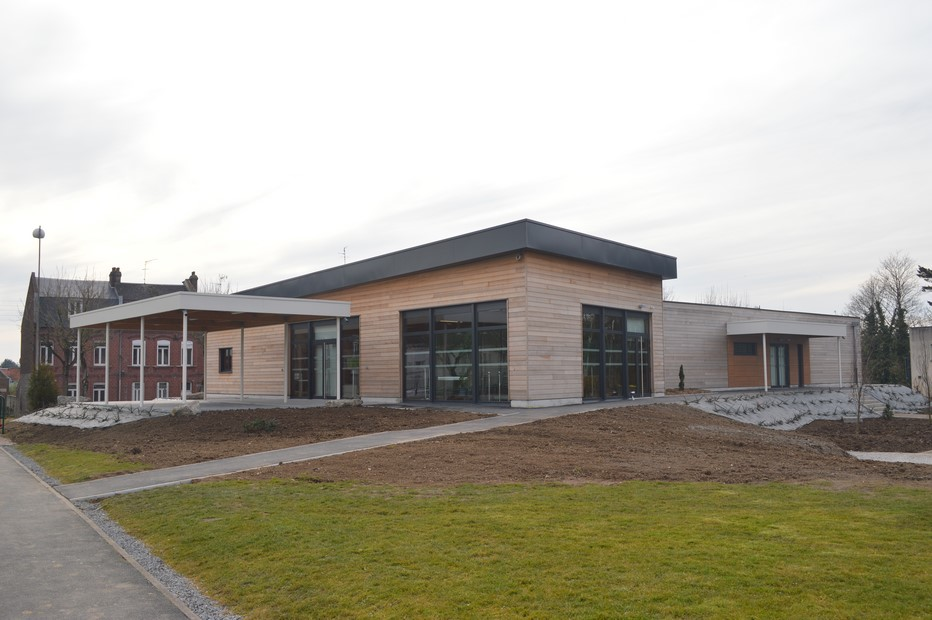 the new club house